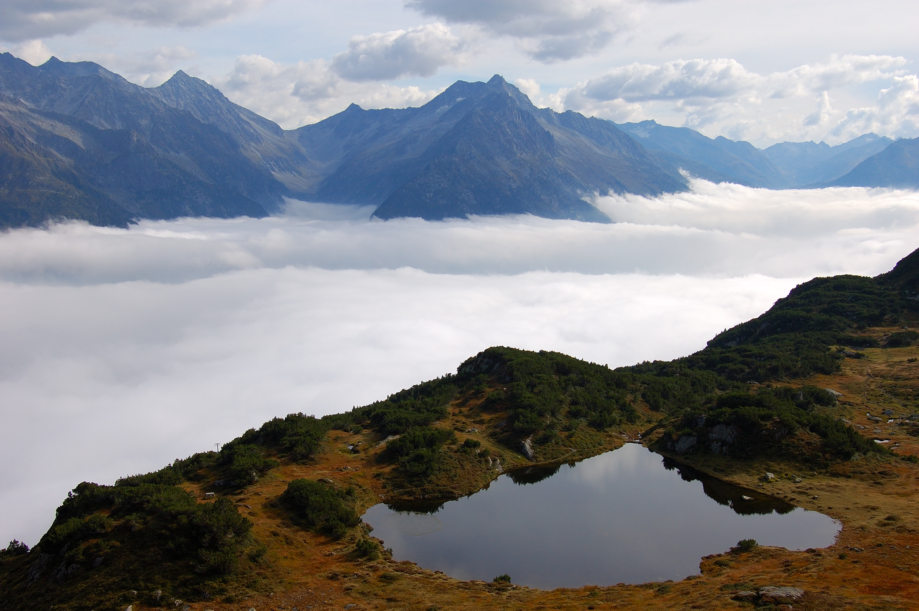 Landscape with a lake in the near of the Sunnig Grat summit in the Canton of Uri/Switzerland